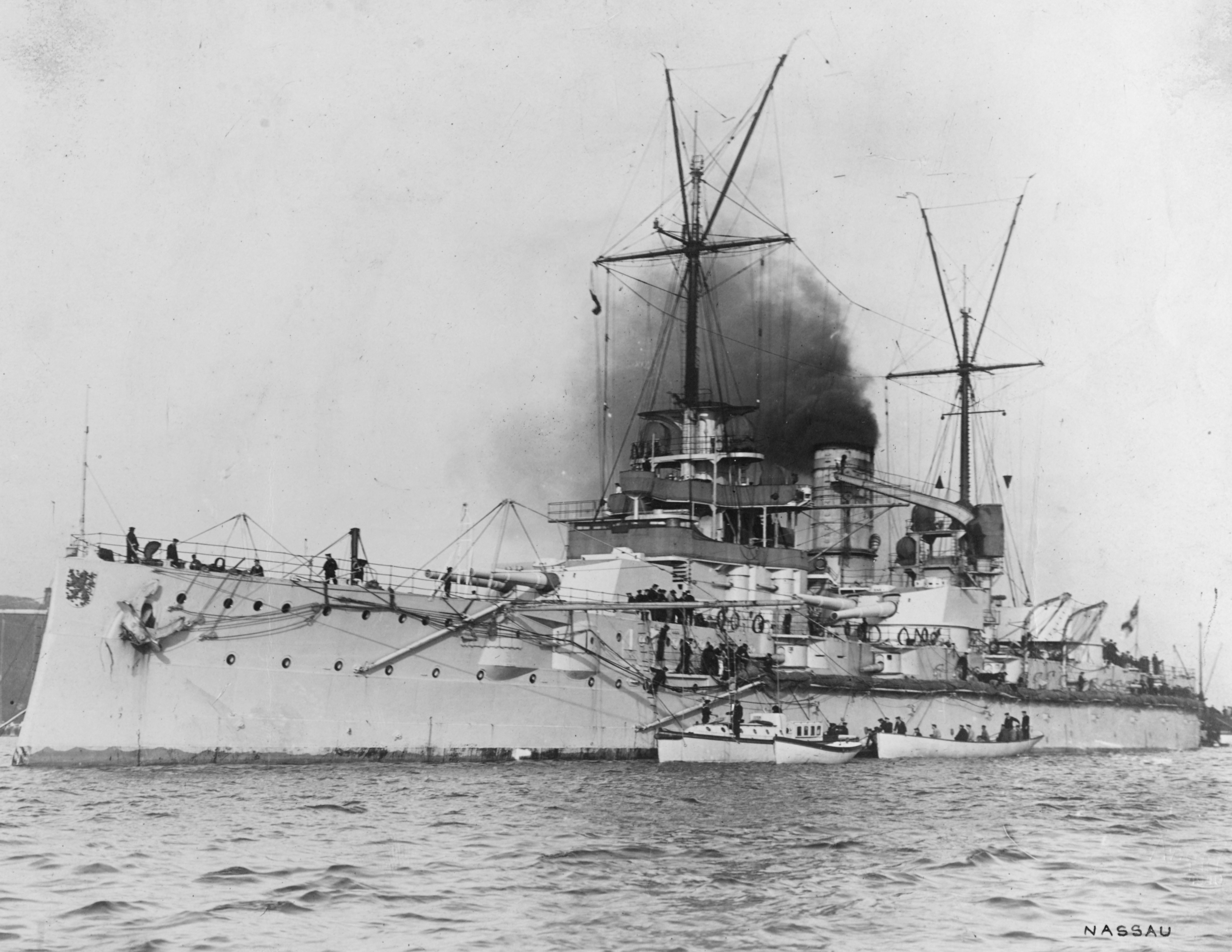 NASSAU (German battleship, 1908-1920) Caption: Photographed early in her career, in a photograph received by the U.S. Navy Office of Naval Intelligence on 18 May 1910. This ship entered fleet service on 1 October 1909.